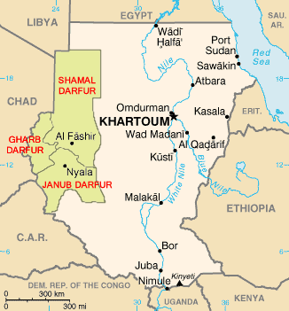 Map of Darfur, Sudan ("Shamal" means north, "Janub" means south, and "Gharb" means west).